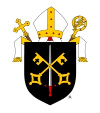 Coat of arms of Brno Diocese, Czech Republic